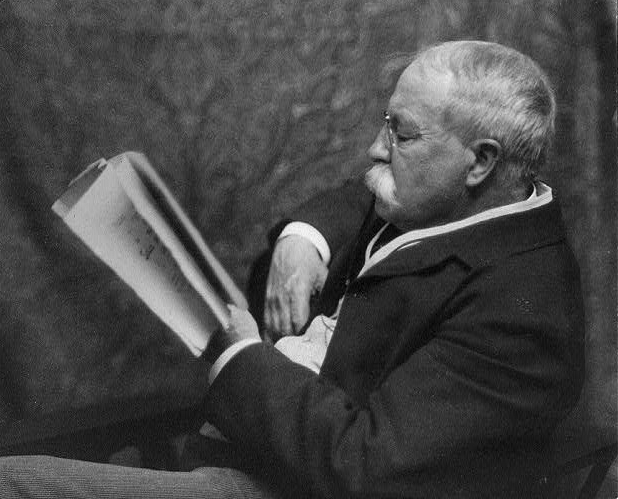 American writer William Dean Howells (1837-1920)